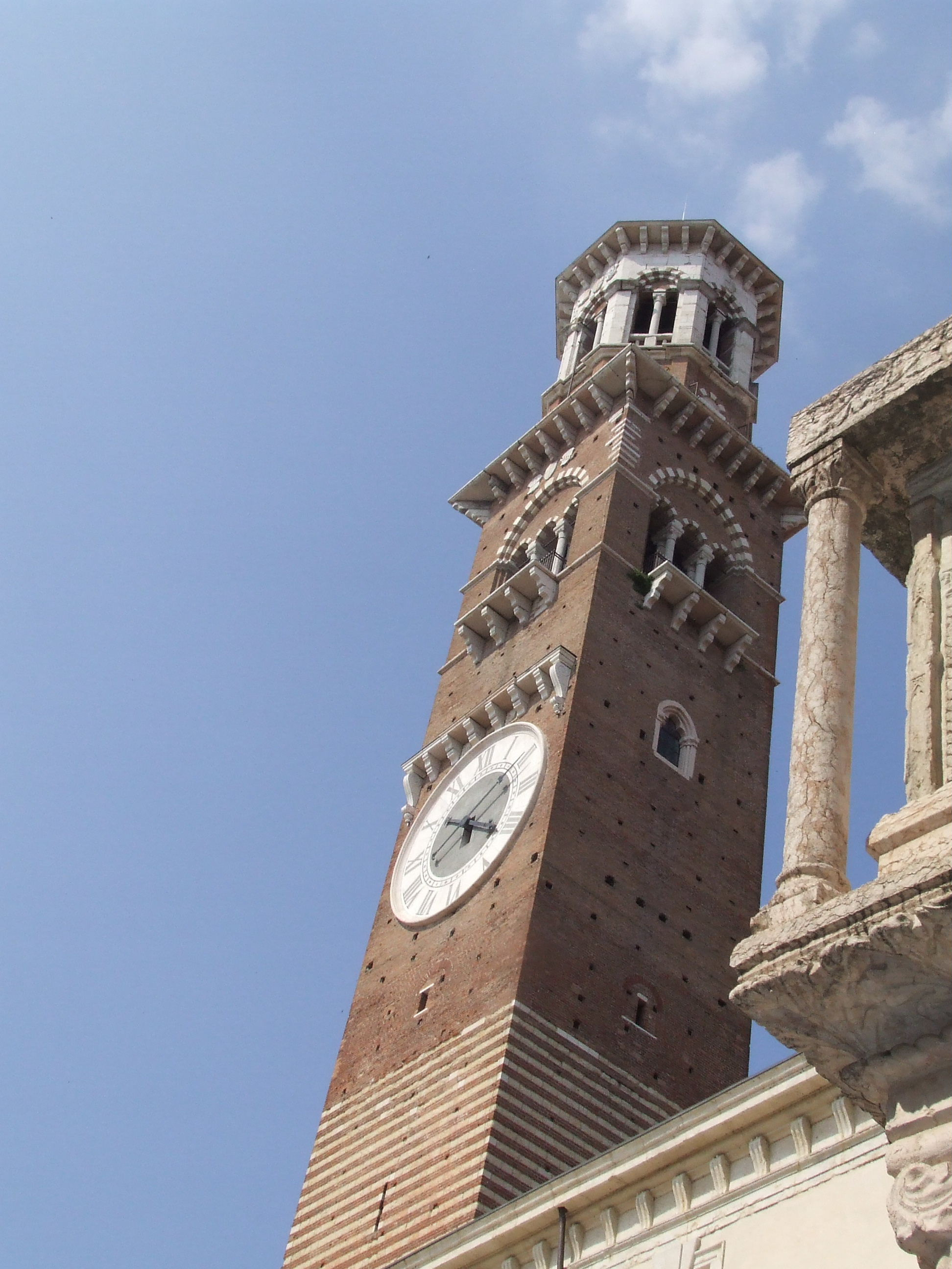 The Torre dei Lamberti, Piazza Erba, Verona in daylight with a fraction of another monument in the Piazza visible.